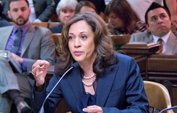 AG Kamala D. Harris Urges State Legislature to Pass Homeowner Bill of Rights